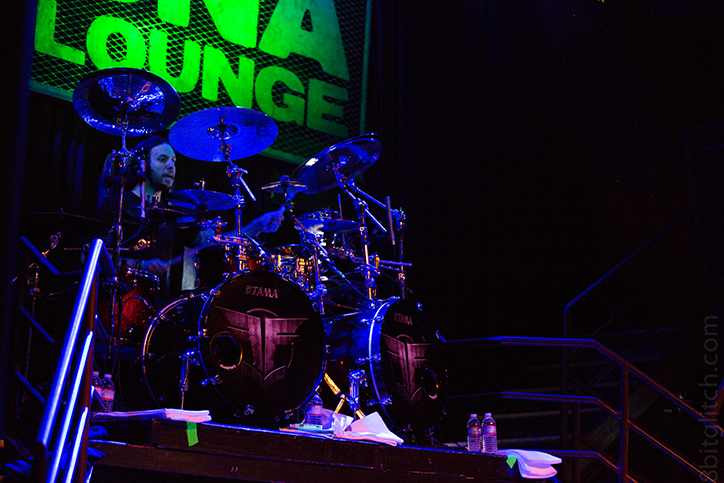 Heller performing with Fear Factory in 2013